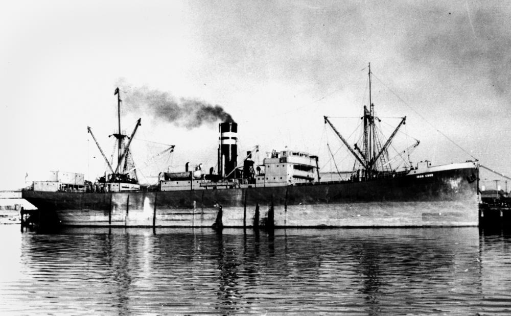 Australian 3,349 GRT cargo steamship Iron Knob: built in 1922 as Euwarra. In 1955 she was bought by Panagiotis Vrangos, renamed Clarisse and registered in Panama. She sank in the Indian Ocean in 1957.